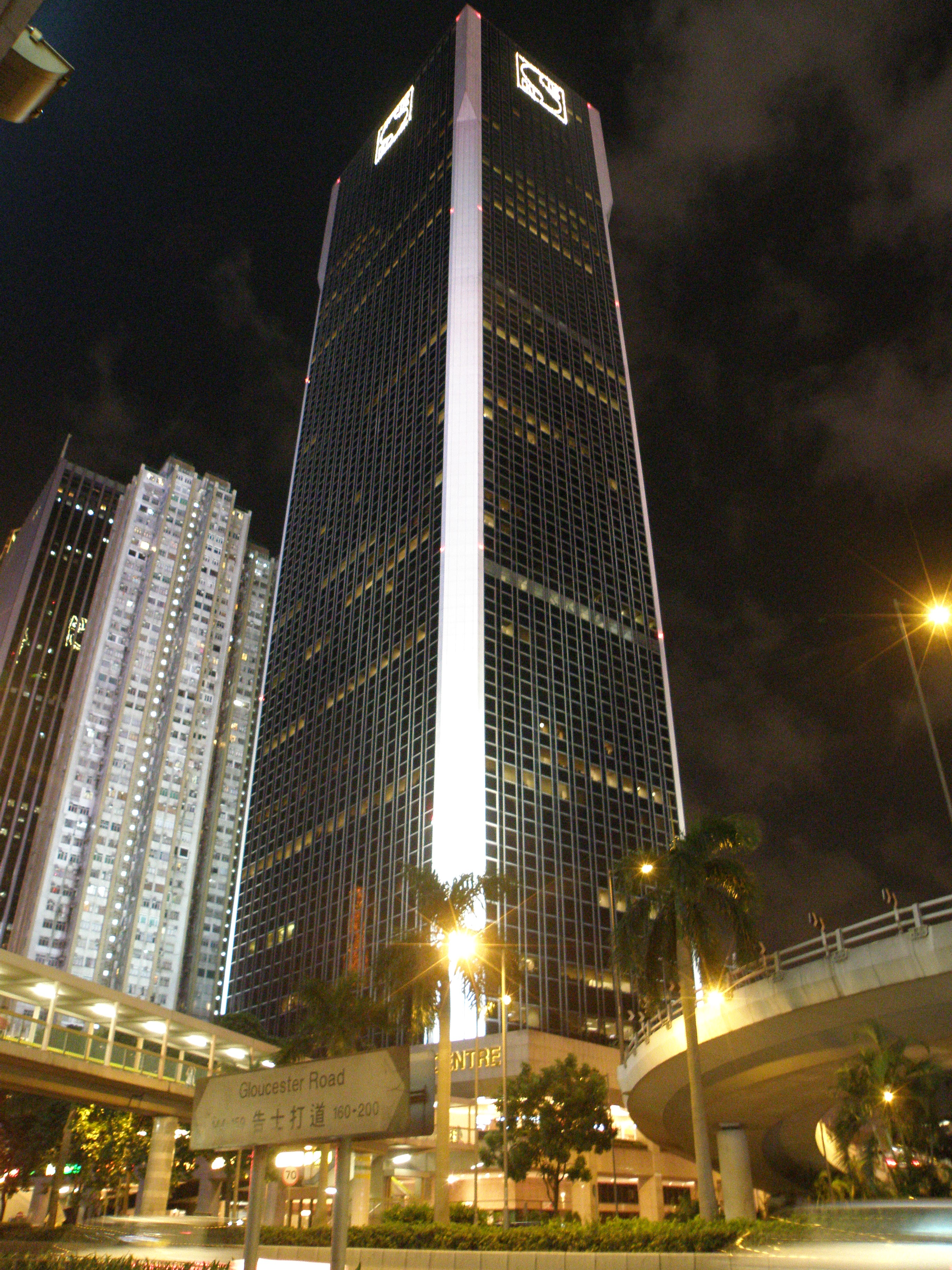 Hong Kong Sun Hung Kai Centre at night.